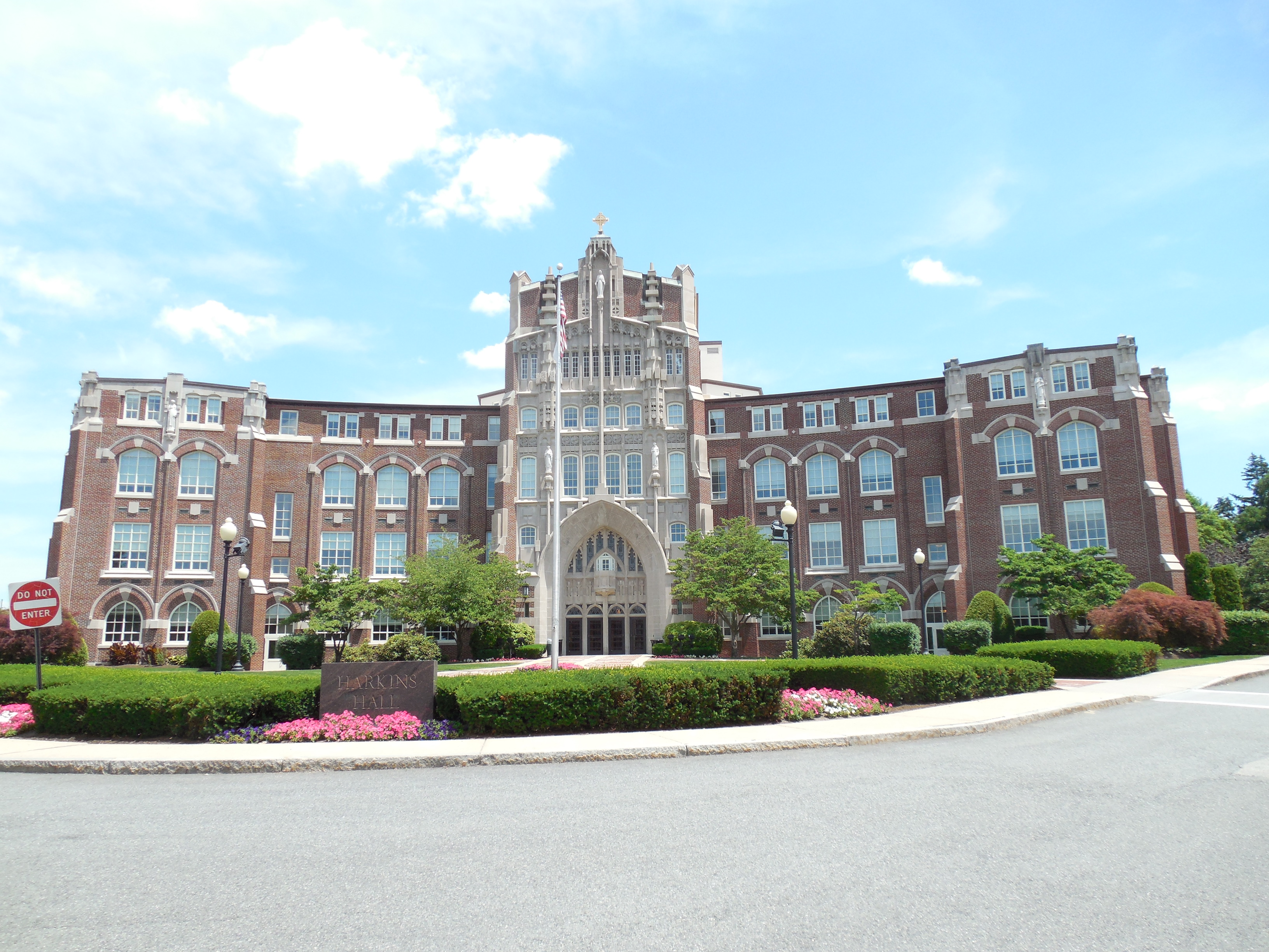 Harkins Hall, Providence College, Providence Rhode Island